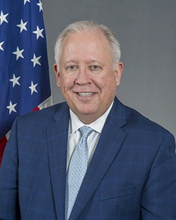 Thomas A. Shannon Jr. official photo